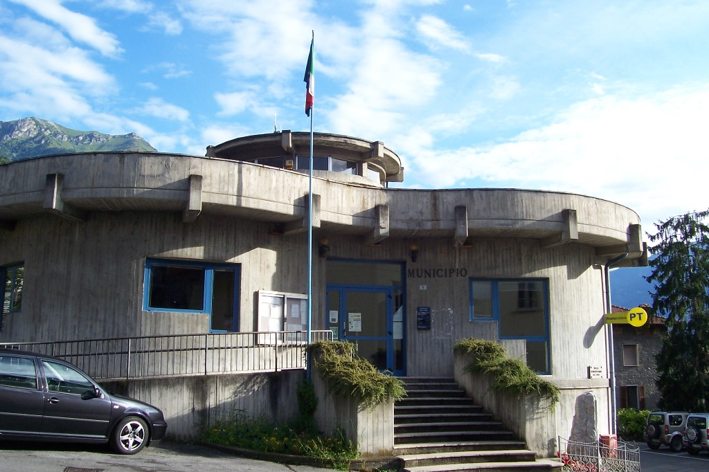 Town hall. Ono San Pietro, Val Camonica